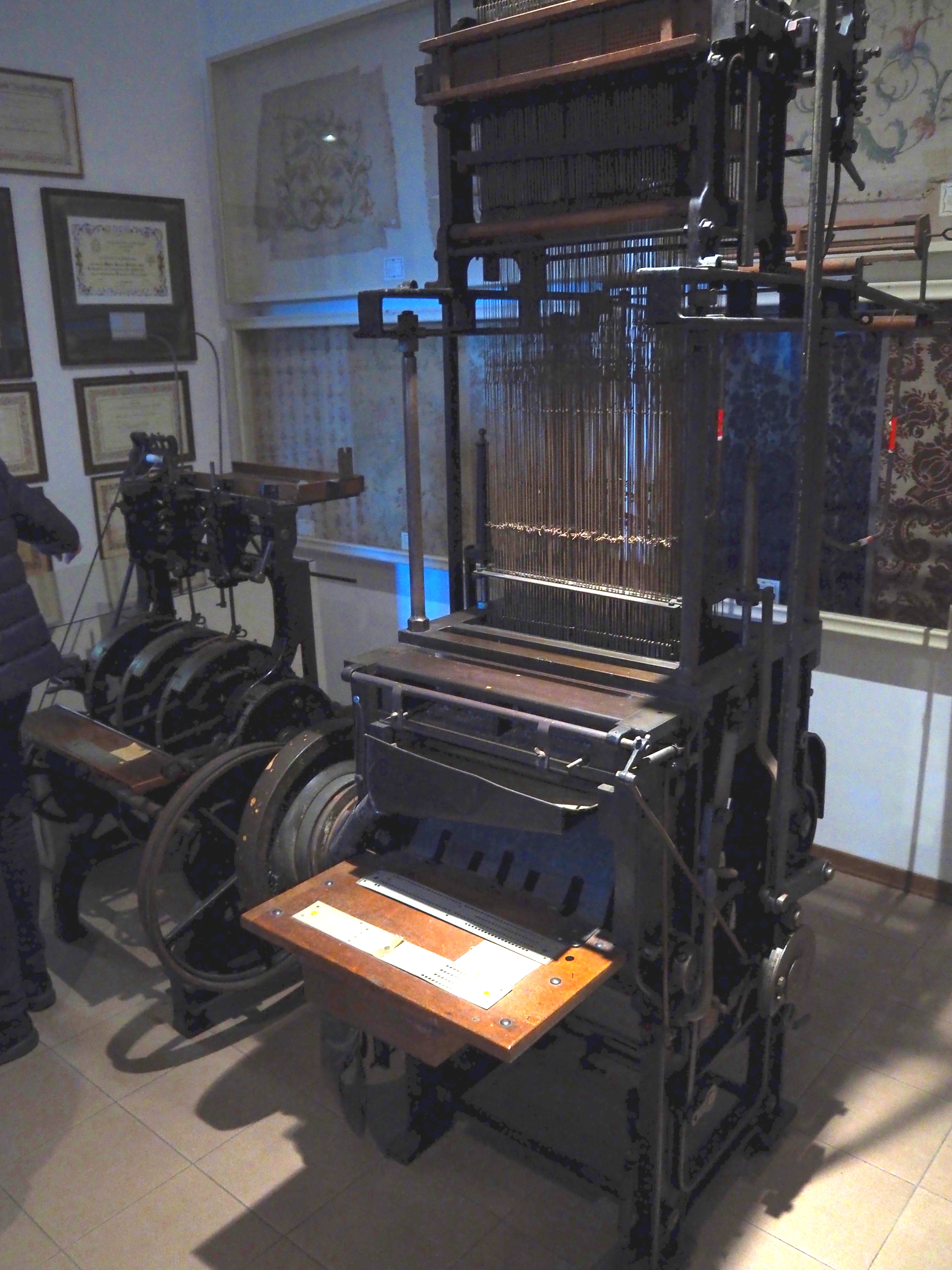 This is a photo of a monument which is part of cultural heritage of Italy.